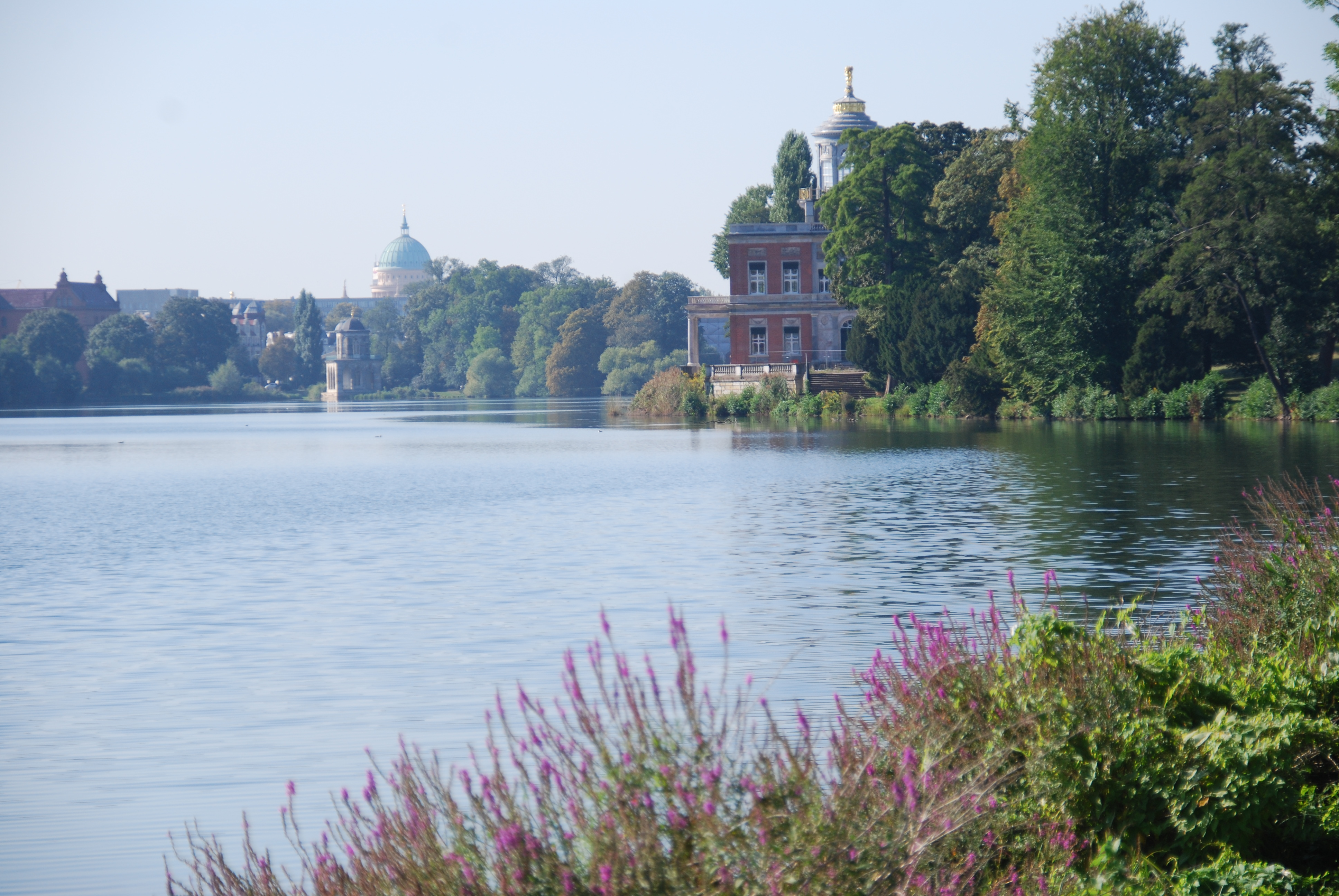 Heiliger See, Potsdam, Brandenburg, Germany